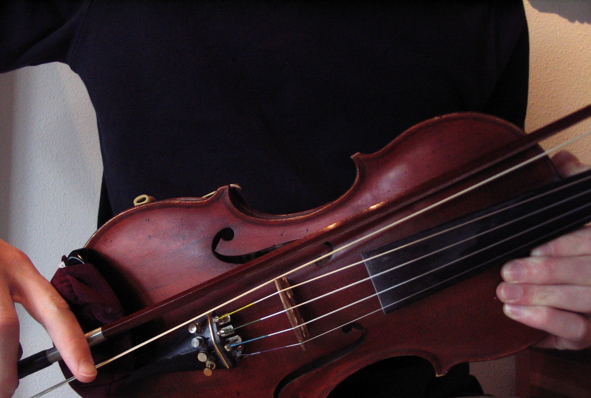 A violinist bowing a violin bridge. This is an extended technique used in some contemporary compositions.